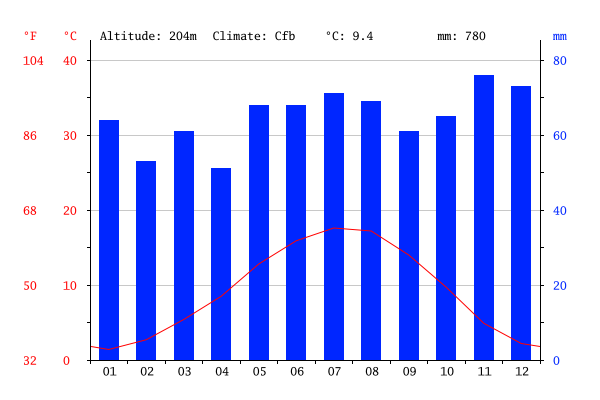 climagrapf of the region : Ettelbrueck